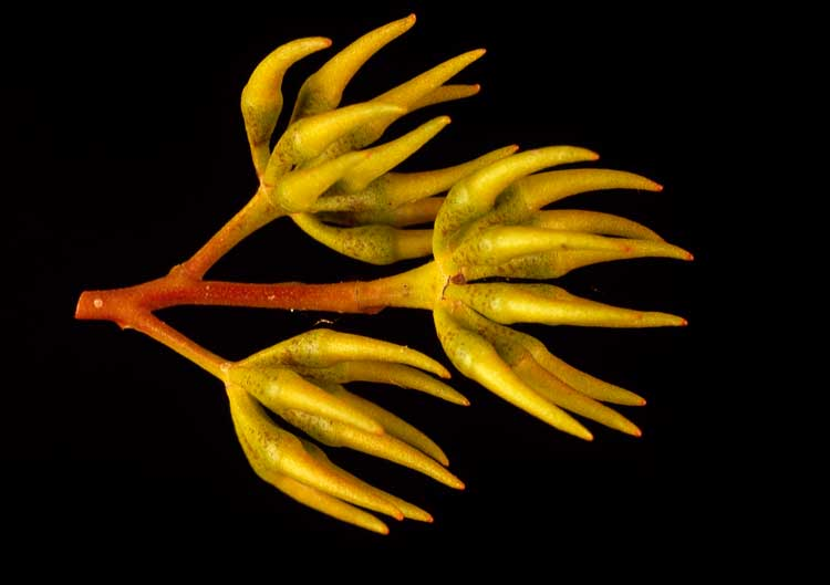 Buds of Eucalyptus arachnaea near South Walebing